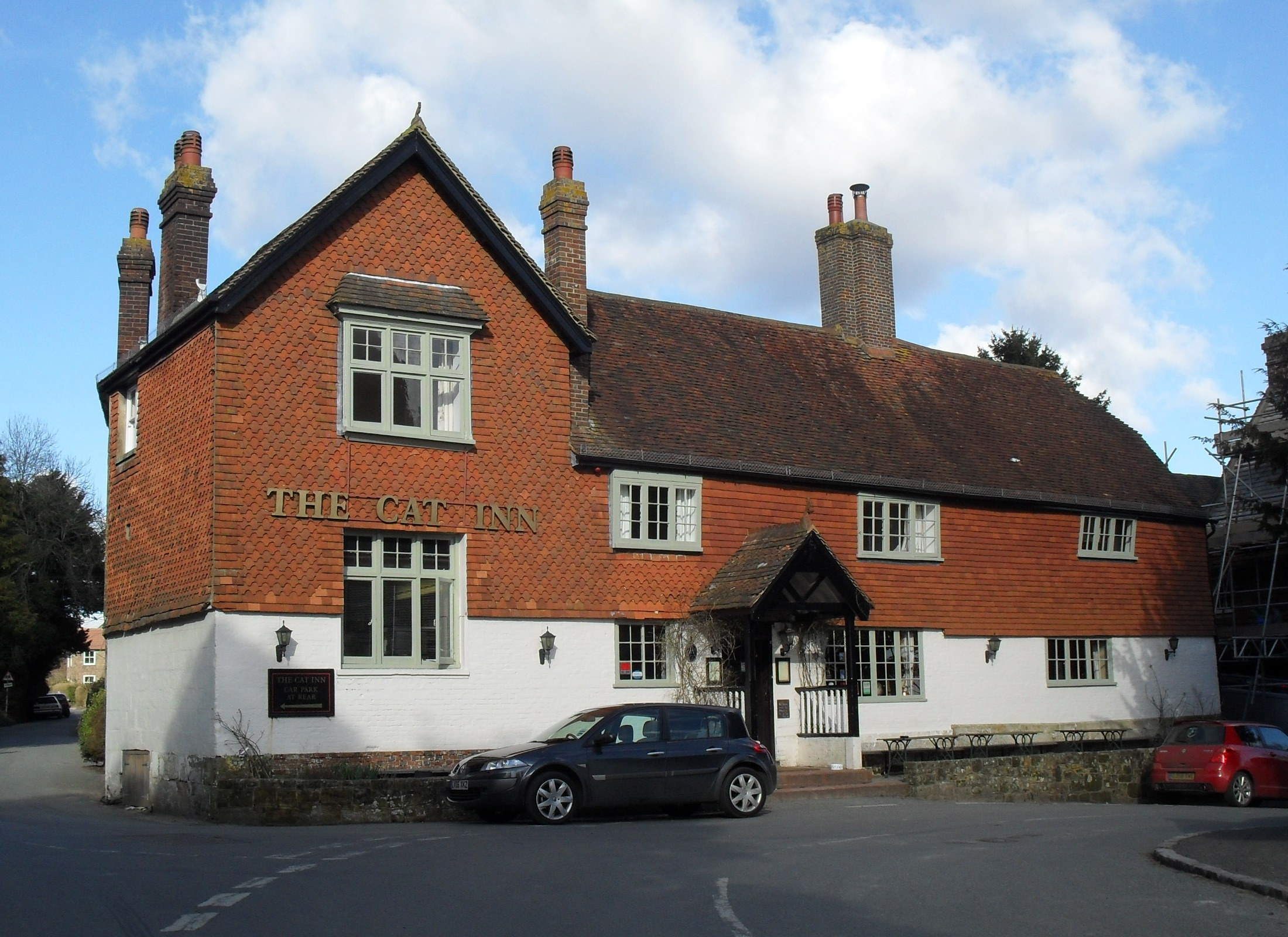 The Cat Inn, Queen's Square, West Hoathly, Mid Sussex, West Sussex, England. An early 16th-century timber-framed building. Listed at Grade II by English Heritage (IoE Code 302848)